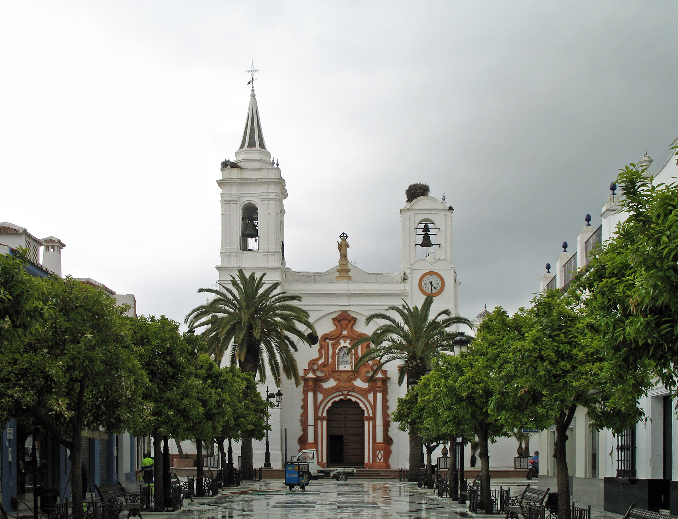 Almonte (province of Huelva, Andalusia, Spain): main square or Plaza Virgen del Rocío and the Nuestra Señora de la Asunción church